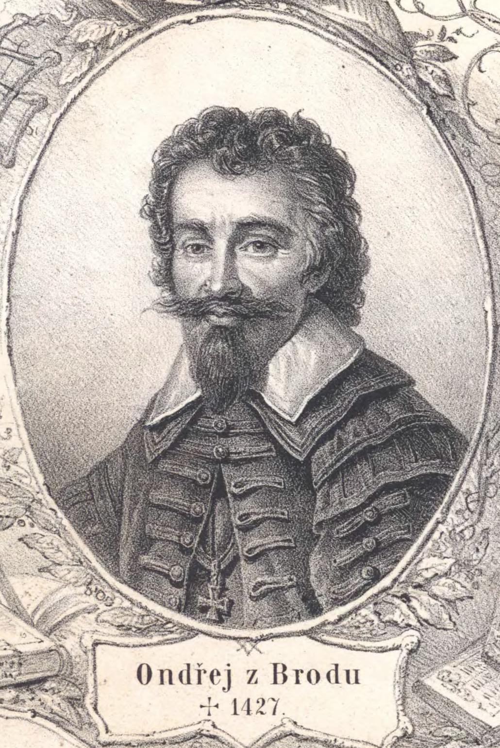 Portrait of Ondřej z Brodu (died 1427, also known as Andreas de Broda), Czech theologian.